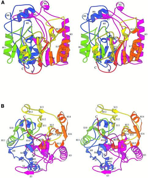 Figure 2 (A) Stereo view of AT in standard orientation with the handles of the basket at the top of the model. The different modules are depicted in different colours (modules I, II, III, IV and V are presented in purple, blue, green, yellow and orange, respectively; the C-terminal -strand completing module I is shown in red) and the active site cysteine residue is shown in a ball-and-stick representation. Helices are numbered with Hn, strands with Sn. The secondary structure elements were determined with the program DSSP (Kabsch and Sander, 1983) and the figure was produced with MOLSCRIPT (Kraulis, 1991). (B) Stereo view of the AT model from the bottom of the basket, revealing the 5-fold pseudosymmetry of the model. The figure was designed with MOLSCRIPT (Kraulis, 1991), the colours are the same as in (A). Andreas Humm, Erich Fritsche, Stefan Steinbacher and Robert Huber; Crystal structure and mechanism of human L-arginine:glycine amidinotransferase: a mitochondrial enzyme involved in creatine biosynthesis; The EMBO Journal (1997) 16, 3373–3385